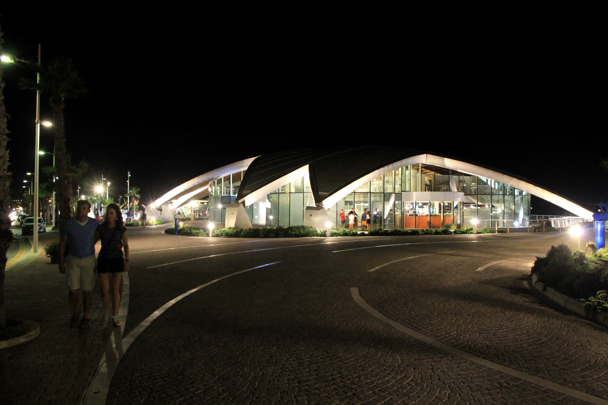 Night image of Malta National Aquarium in St. Paul's Bay, Malta